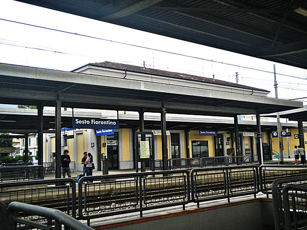 Sesto train station